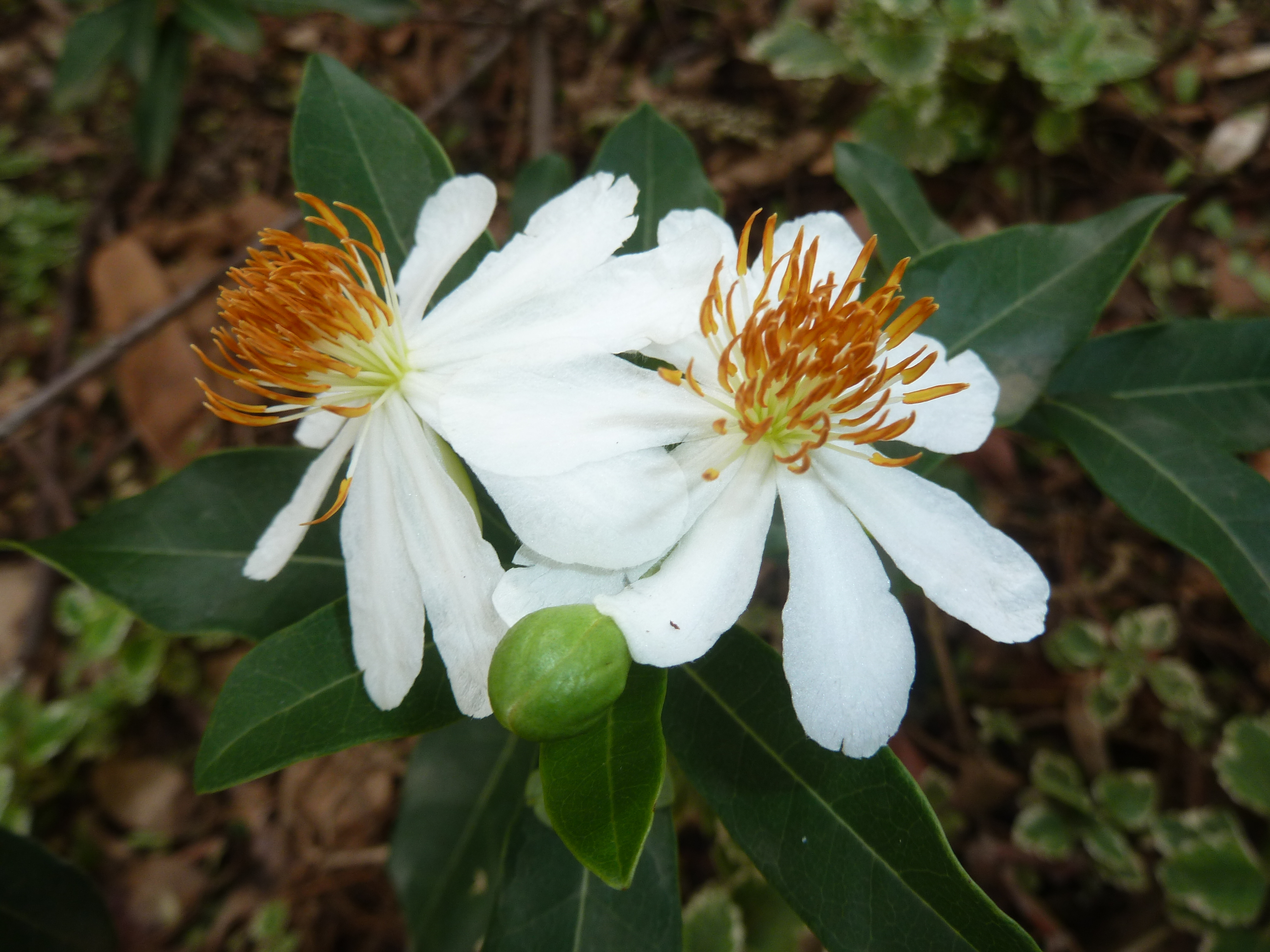 Flower and flower bud of an African dog rose in the Manie van der Schijff Botanical Garden, Pretoria